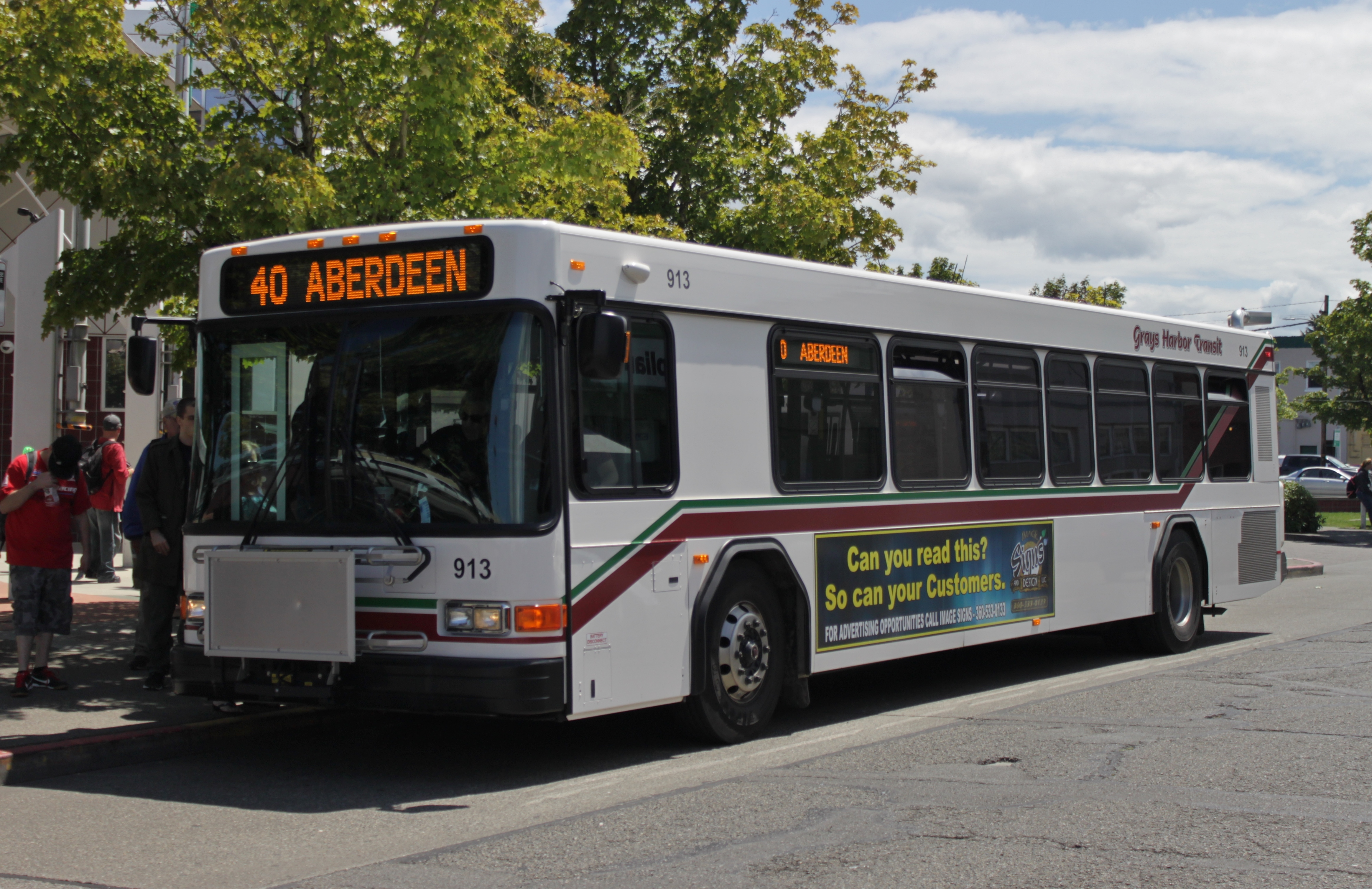 A Grays Harbor Transit-operated Gillig bus on route 40 at Olympia Transit Center.